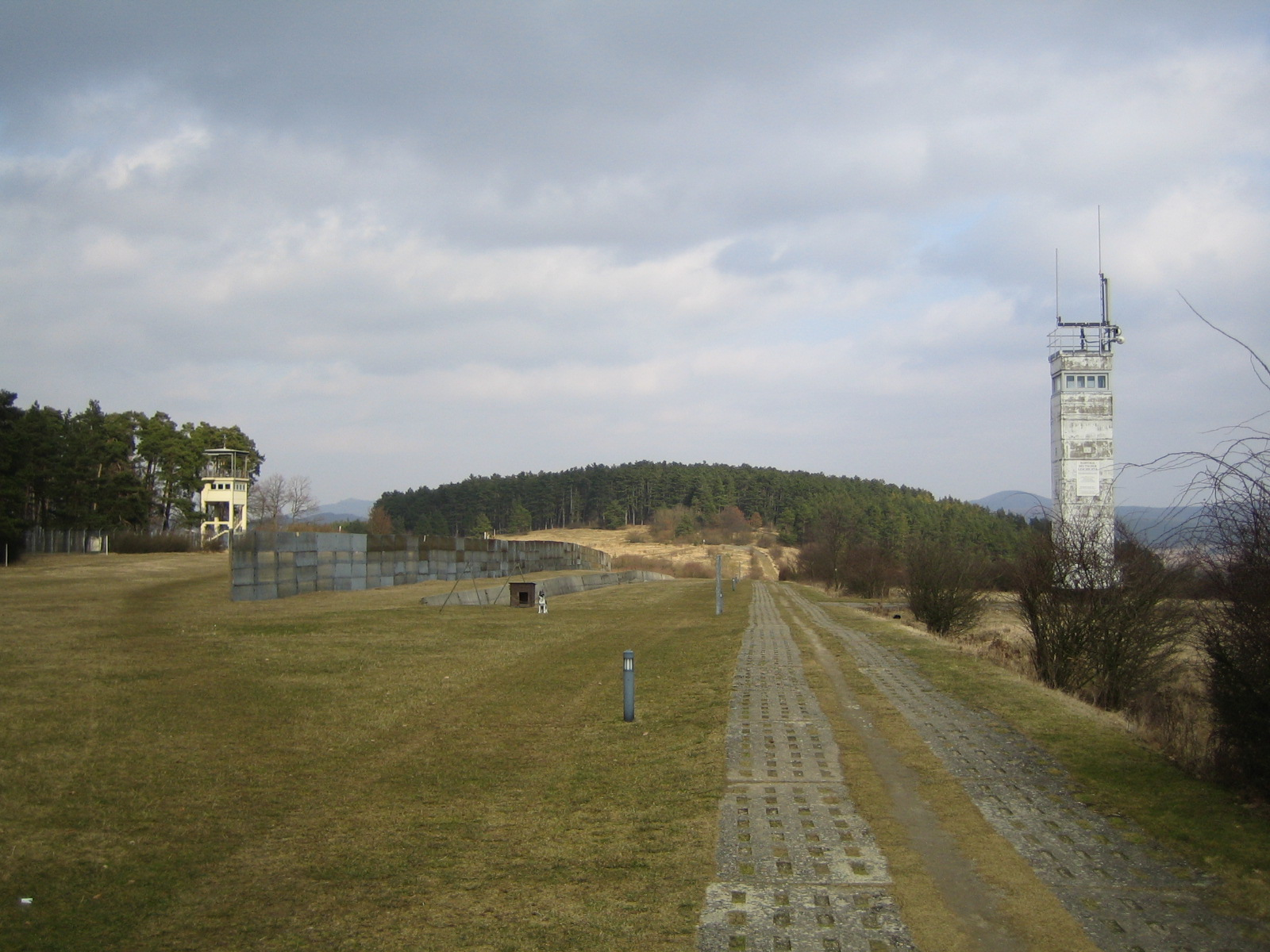 Former watch tower on the Inner German border, now at the museum Point Alpha